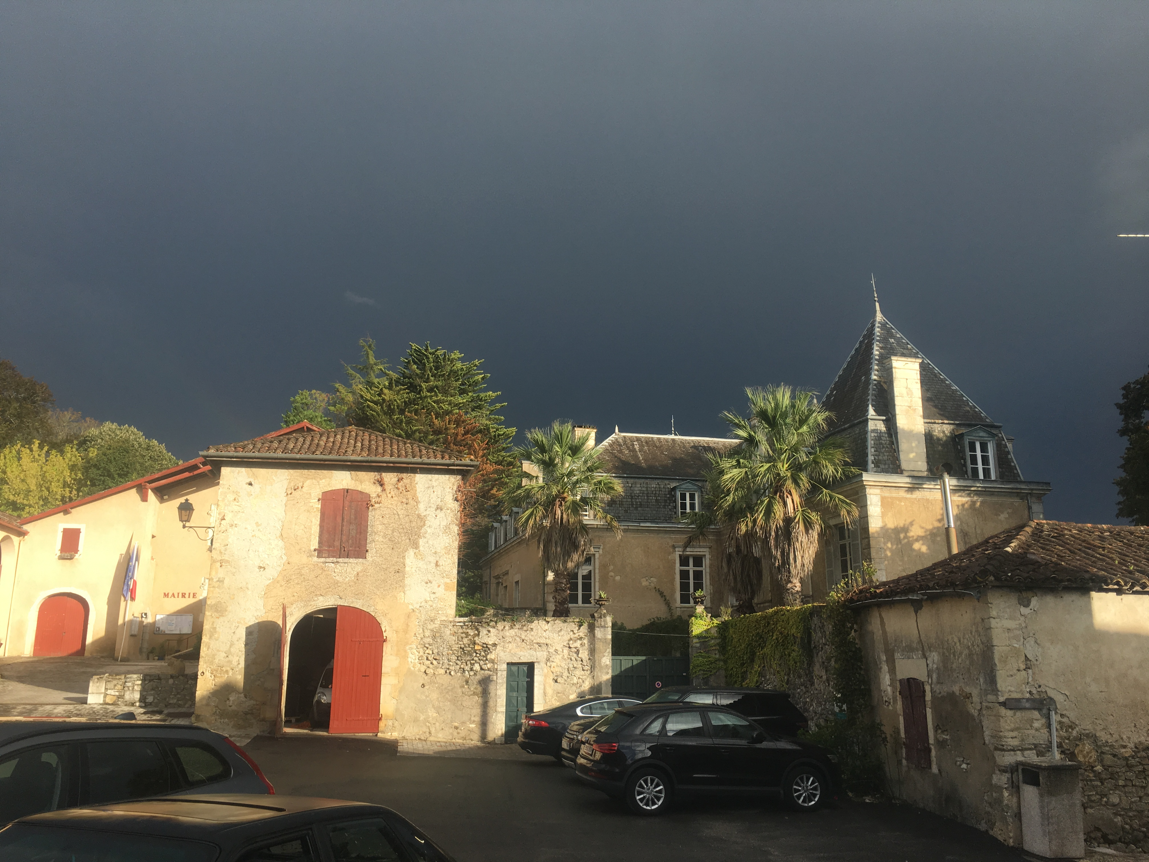 vue du chateau depuis la place de l'eglise